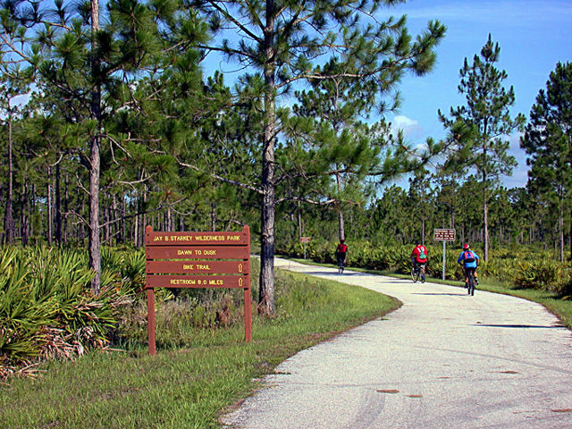 J.B. Stanley Wildernes Park